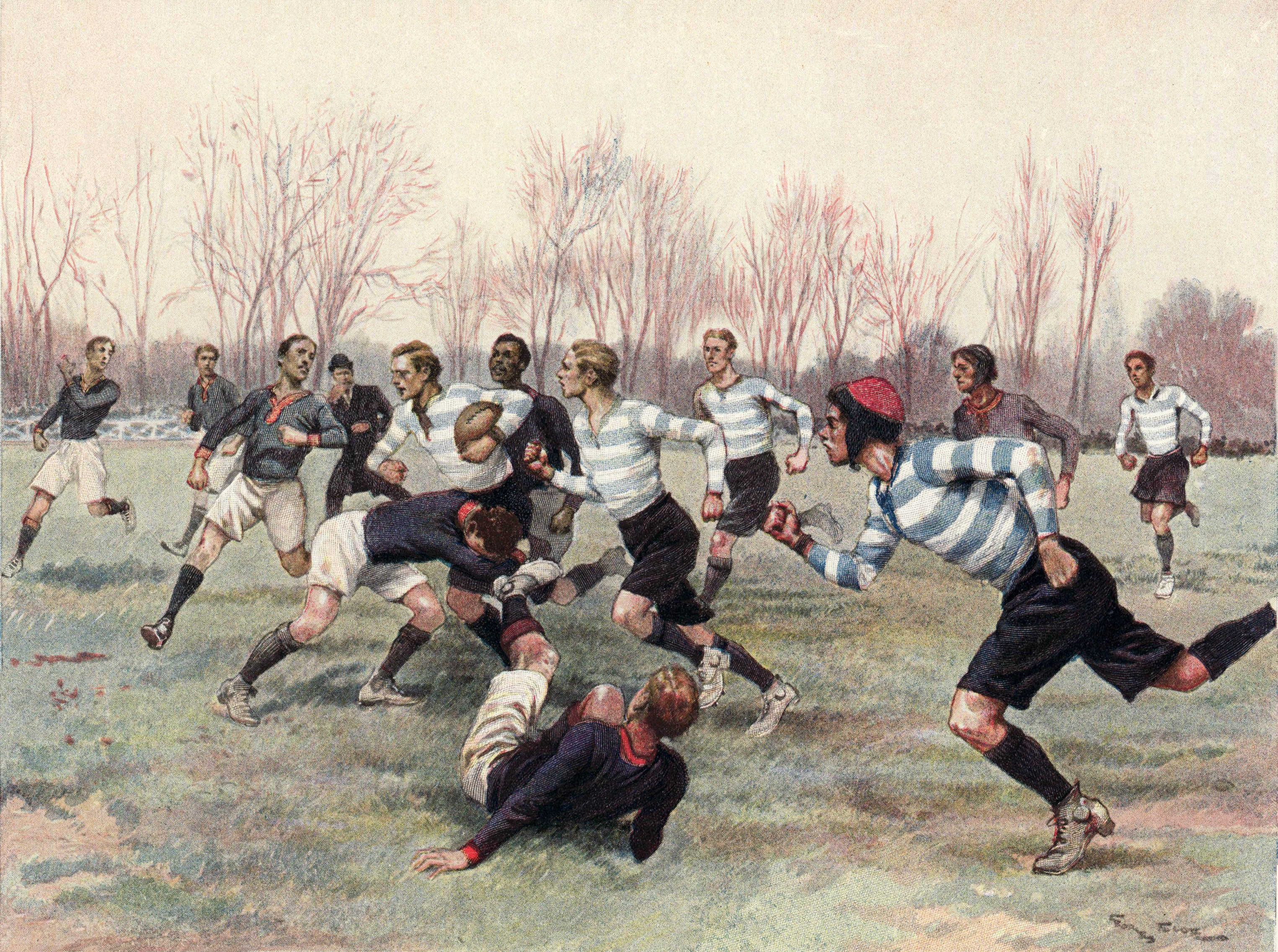 Stade Français rugby club (in dark blue jersey), playing Racing Club.